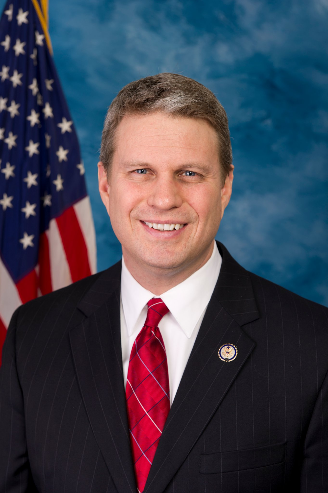 Official portrait of US Rep. Bill Huizenga.